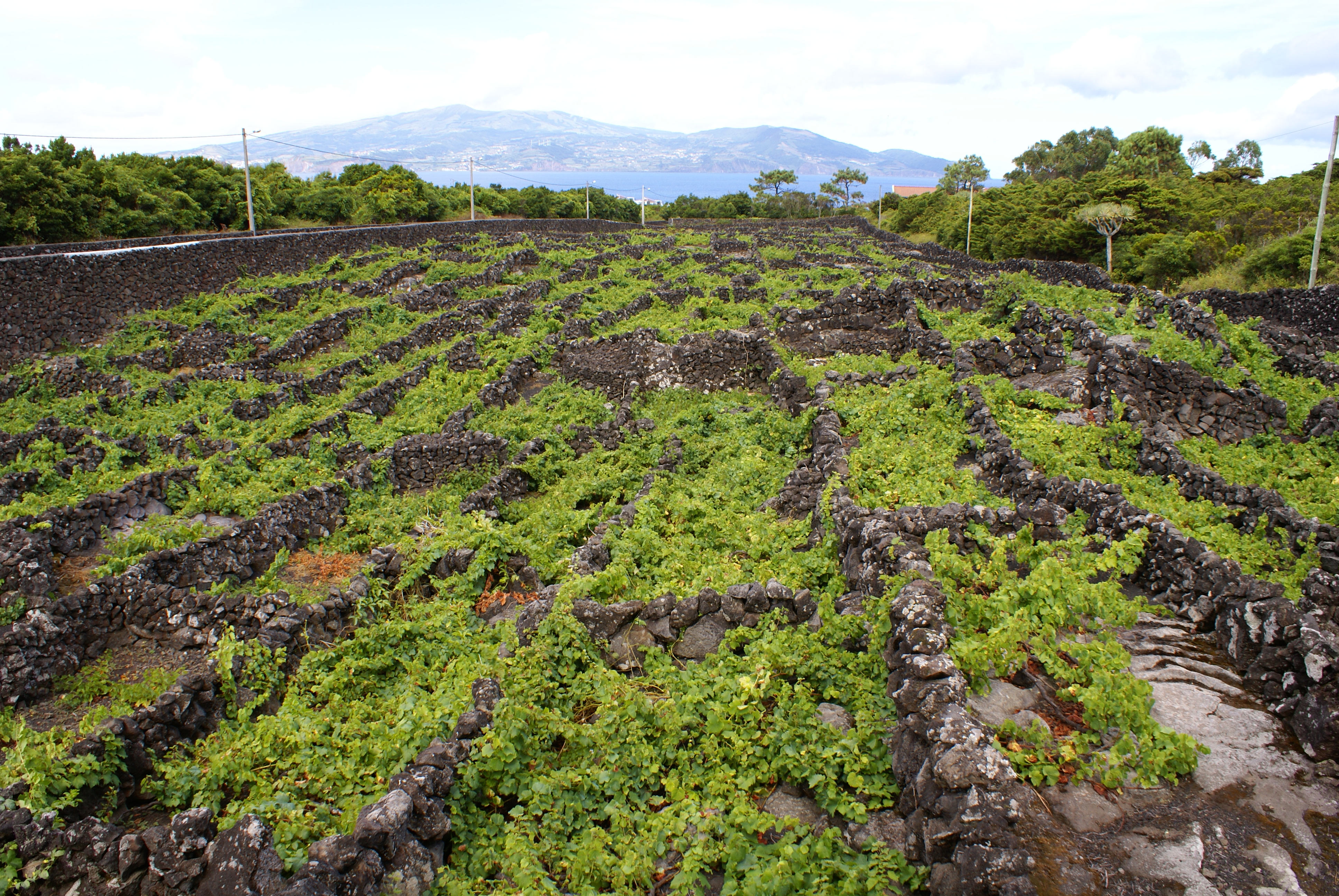 Museu do Vinho do Pico, curraletas de vinha 2 Lagido da Madalena, Concelho da Madalena, ilha do Pico, Açores, Portugal